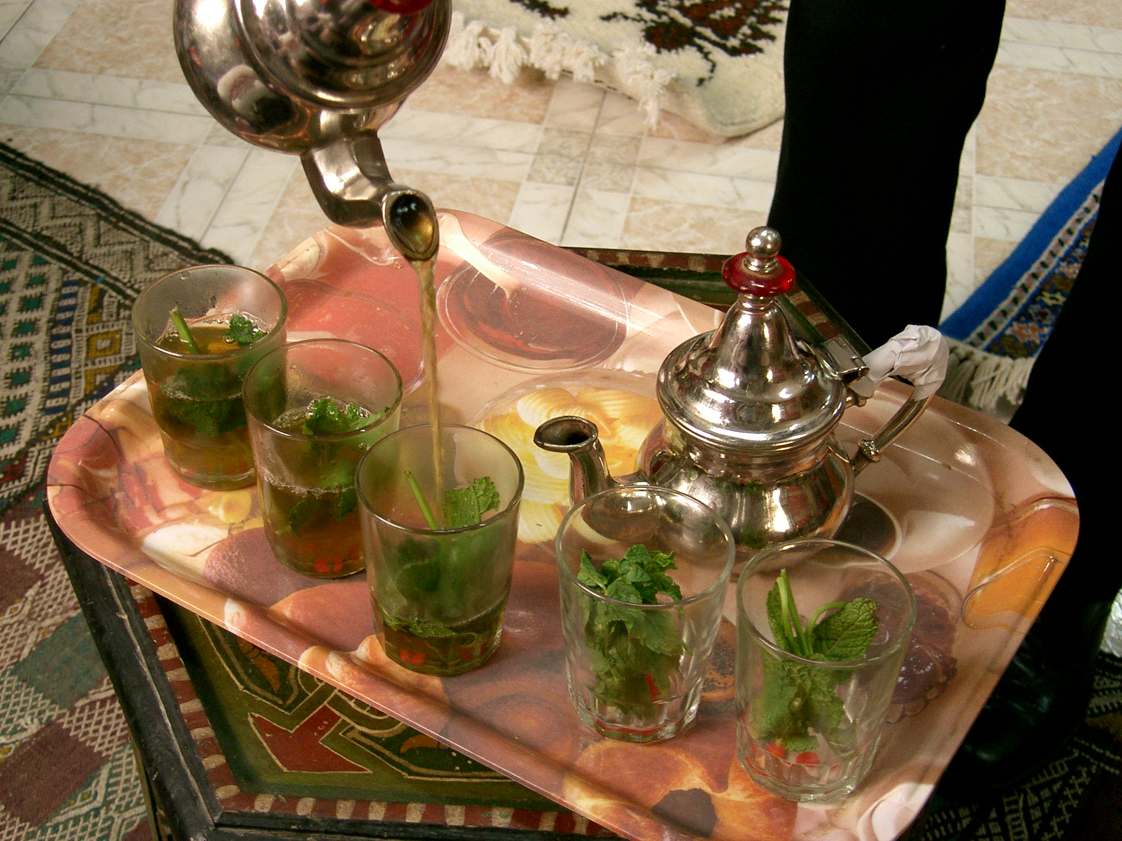 Mint tea served at a Tangier carpet store